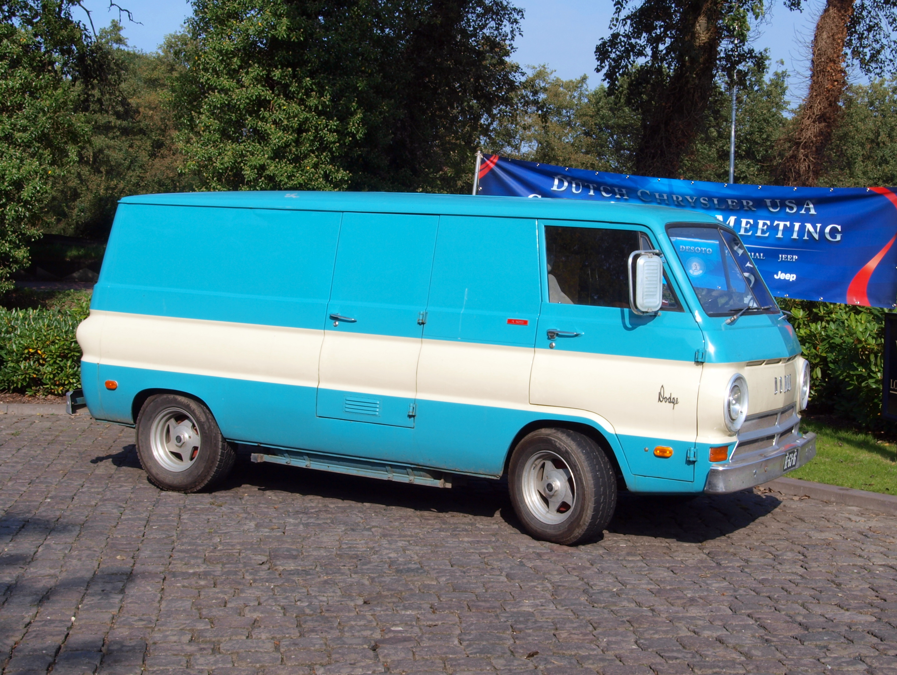 Photographed at the premmesis of the Louwman museum, The Hague, The Netherlands. OLYMPUS DIGITAL CAMERA